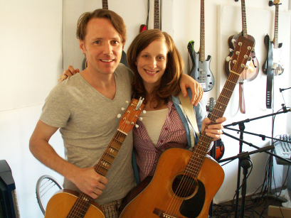 Whitehorse (Luke Doucet and Melissa McClelland) in a home studio in the Netherlands after a live radio unplugged performance recording session.